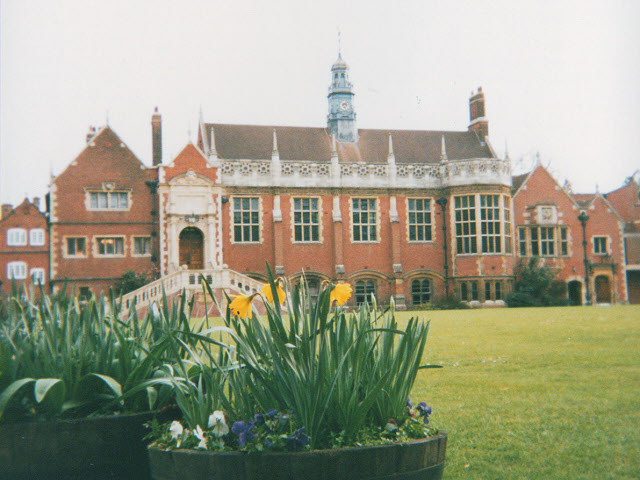 Selwyn College, Cambridge. The building in the background is the one to the right in 980576.